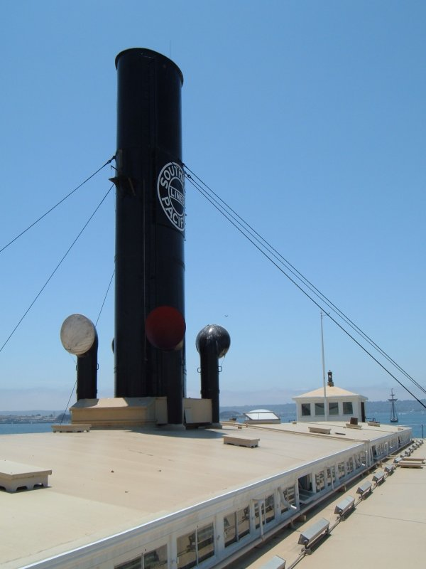 The stack of the ferryboat Berkeley, at the Maritime Museum of San Diego, July, 2005. The schooner Californian is visible in the right of the picture beyond the control cab.